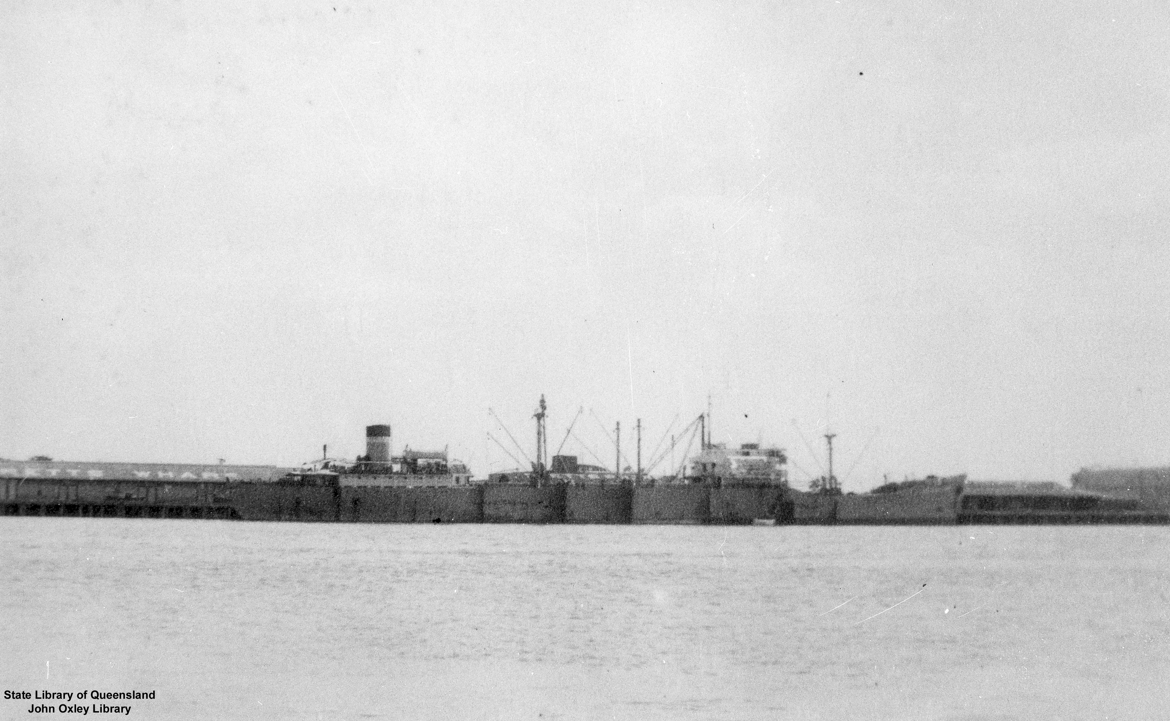 8,197 GRT merchant ship City of Athens. Sir James Laing & Co of Sunderland built her in 1945 as the tanker Beechwood for John I Jacobs Ltd of Liverpool. In 1955 Soc. de Nav. Magliveras of Panama bought her and had her converted to a dry cargo ship. Ellerman Lines chartered her and she was renamed City of Athens. In 1957 she was renamed Marianne. In 1964 Patt, Manfield & Co of Hong Kong bought her and renamed her Constellation. In 1970 Golden Moon Shipping of Panama bought her and renamed her Golden Moon. She was scrapped in 1973.